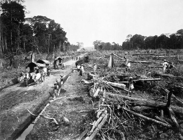 Chopped forest and drainage canal under construction at a tobacco plantation